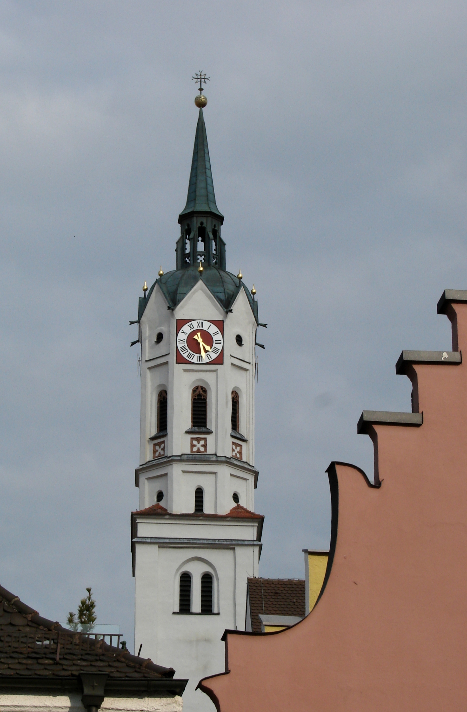 Schrobenhausen, tower of St. Jacob's church